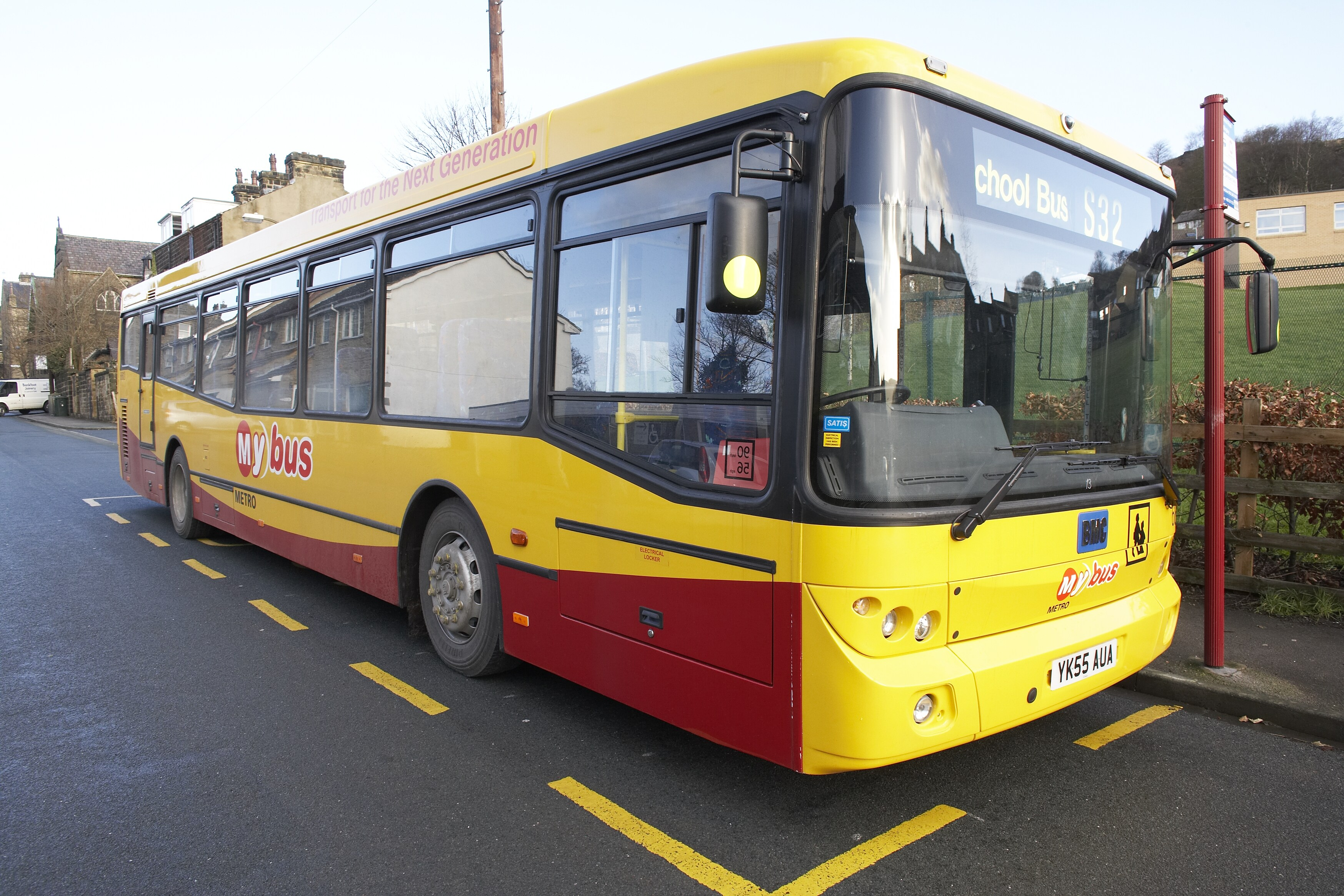 First West Yorkshire bus 68612 (reg. YK55 AUA), a 2005 BMC 220 Condor School Bus, pictured operating route S32, which runs from the village of Wilsden to Bingley Grammar School in the town of Bingley, in West Yorkshire. It's wearing the yellow livery and branding of the multi-operator Metro (WYPTE) Mybus dedicated school bus scheme. Having been operated by First since new, in August 2012 and bus passed to Transdev Keighley & District after they won the contract for the route (a previous version wrongly claimed this bus belonged to CT Plus, one of the other operators in the Mybus scheme).